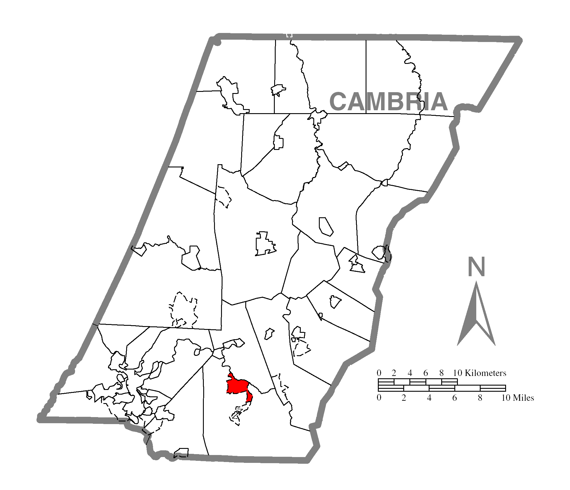 A map of Cambria County showing St. Michael-Sidman, Pennsylvania (alternate) highlighted on the map.